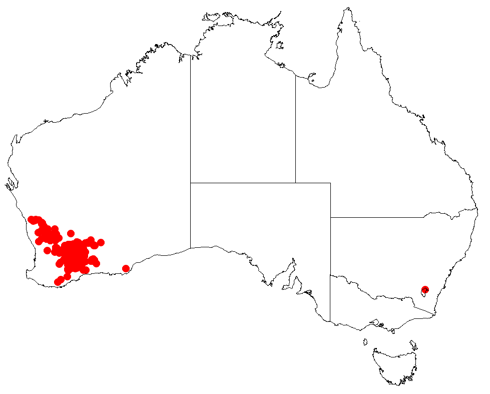 Hakea erecta Occurrence data downloaded from Australasian Virtual Herbarium on 22 November 2018 using